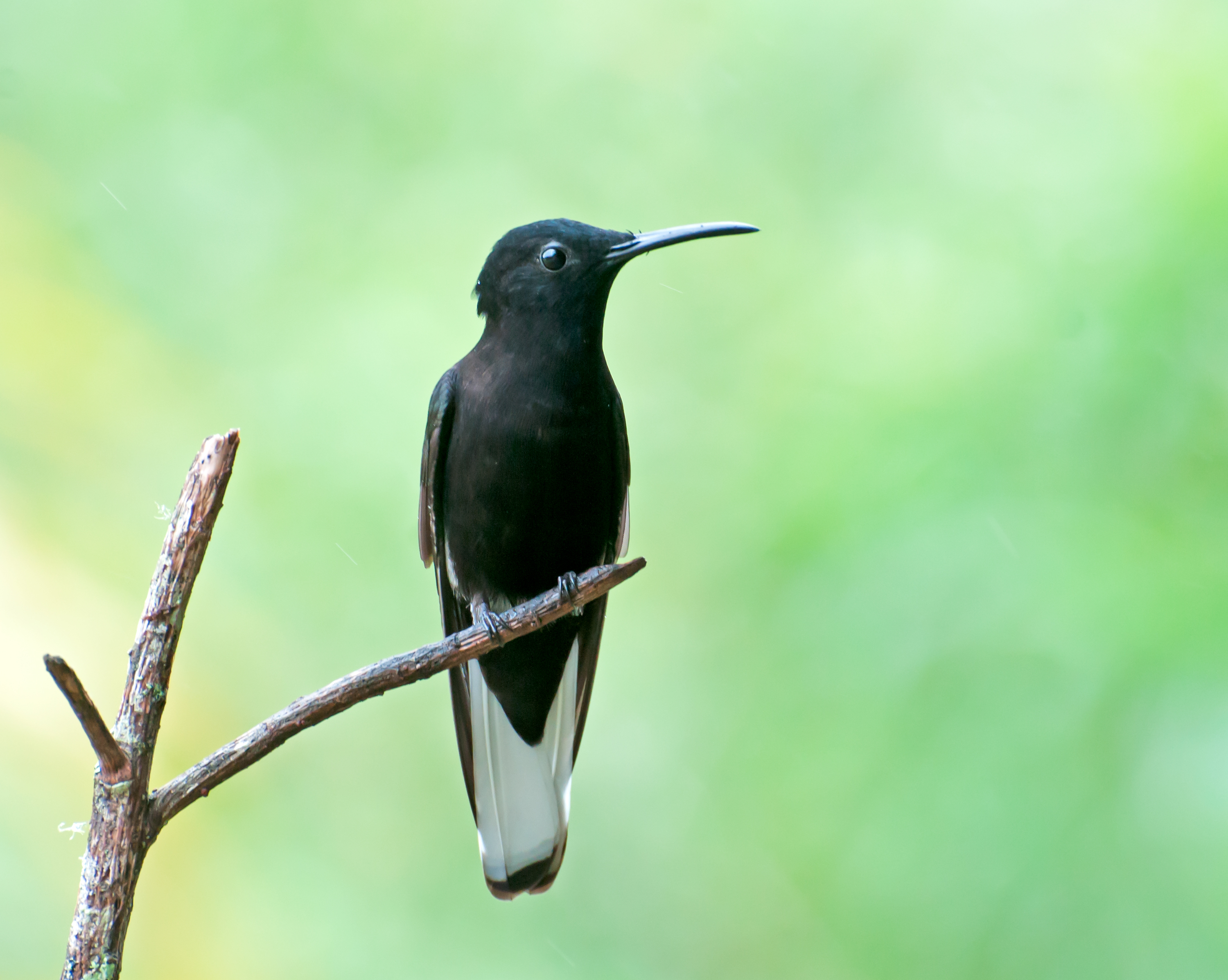 A Black Jacobin in Reserva Guainumbi, São Luis do Paraitinga, São Paulo, Brazil.